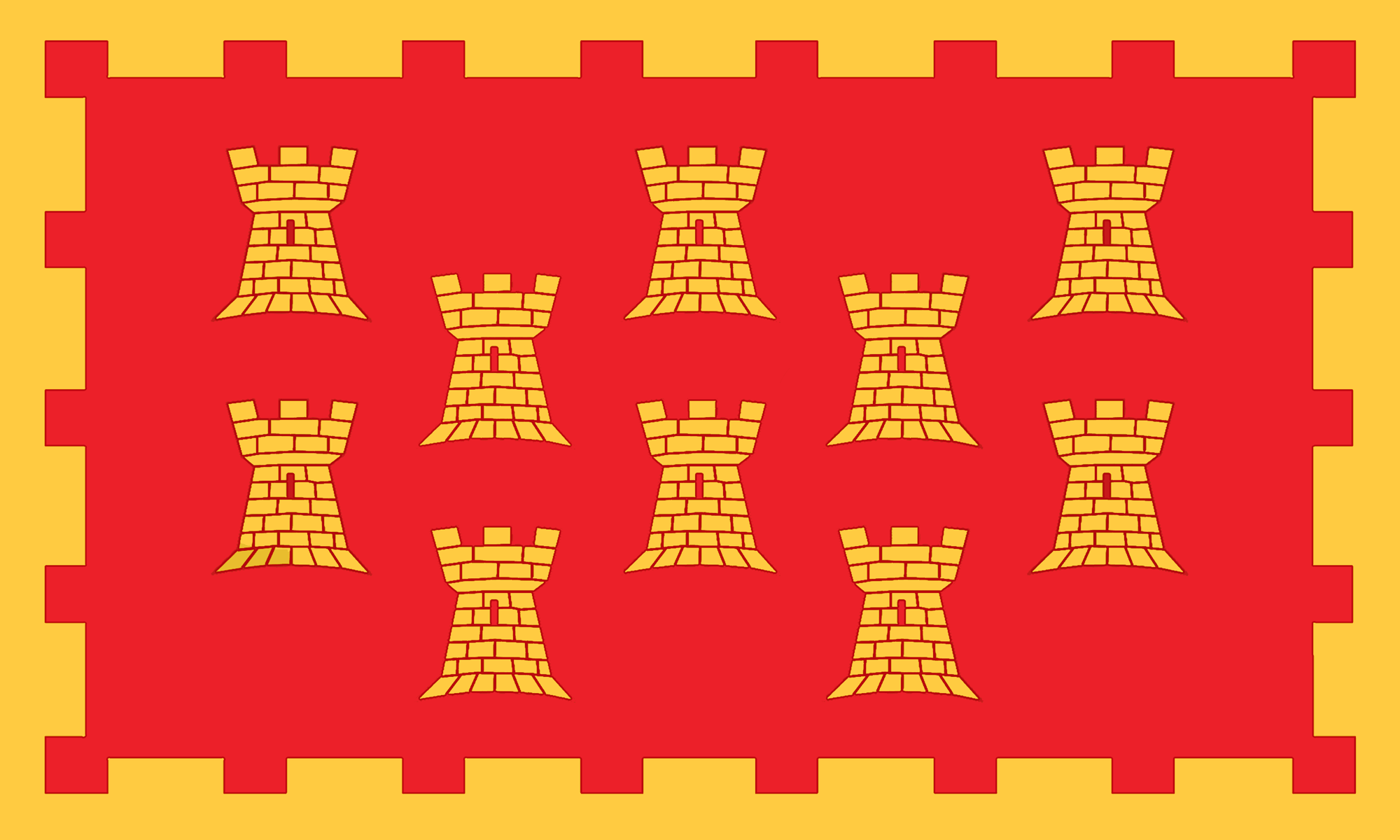 The County Flag of Greater Manchester is composed of ten golden castles (arranged in rows of 3-2-3-2) on a red background, fringed by a golden border in the style of a castle battlement. The ten golden castles represent both the urban landscape of Greater Manchester, and its division in to its ten metropolitan districts: Bolton, Bury, Manchester, Oldham, Rochdale, Tameside, Trafford, Salford, Stockport, and Wigan. The red ground represents man-power and the county's red-brick architectural heritage, both legacies of Greater Manchester's industrial past. The embattled border represents the unity and shared future of the county, and its bold, vigilant and forward-looking character. The blazon is: "Gules, ten Towers three two three two, all within a Bordure embattled Or".